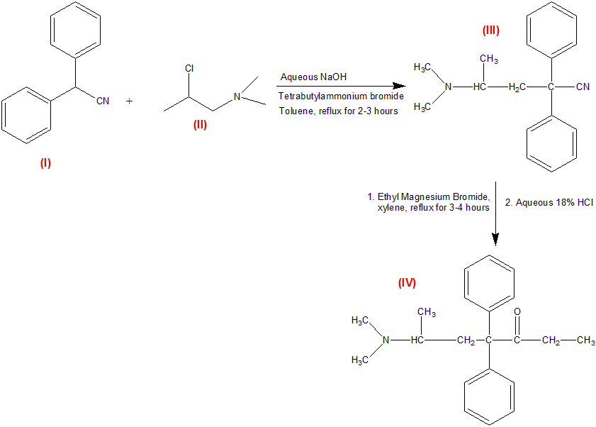 Synthesis of methadone - according to US Patent # 4242274 (Taylor, 1980) -- URL